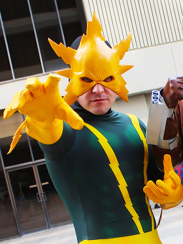 electro Marvel